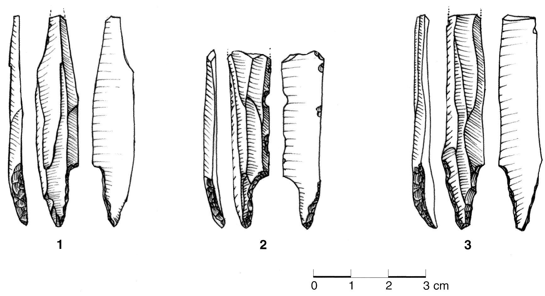 3 examples of mediterranean shouldered points with abrupt retouch. Salpetrian level from "la Salpêtrière" cave (Remoulins, Gard), France 18000-19500 BP